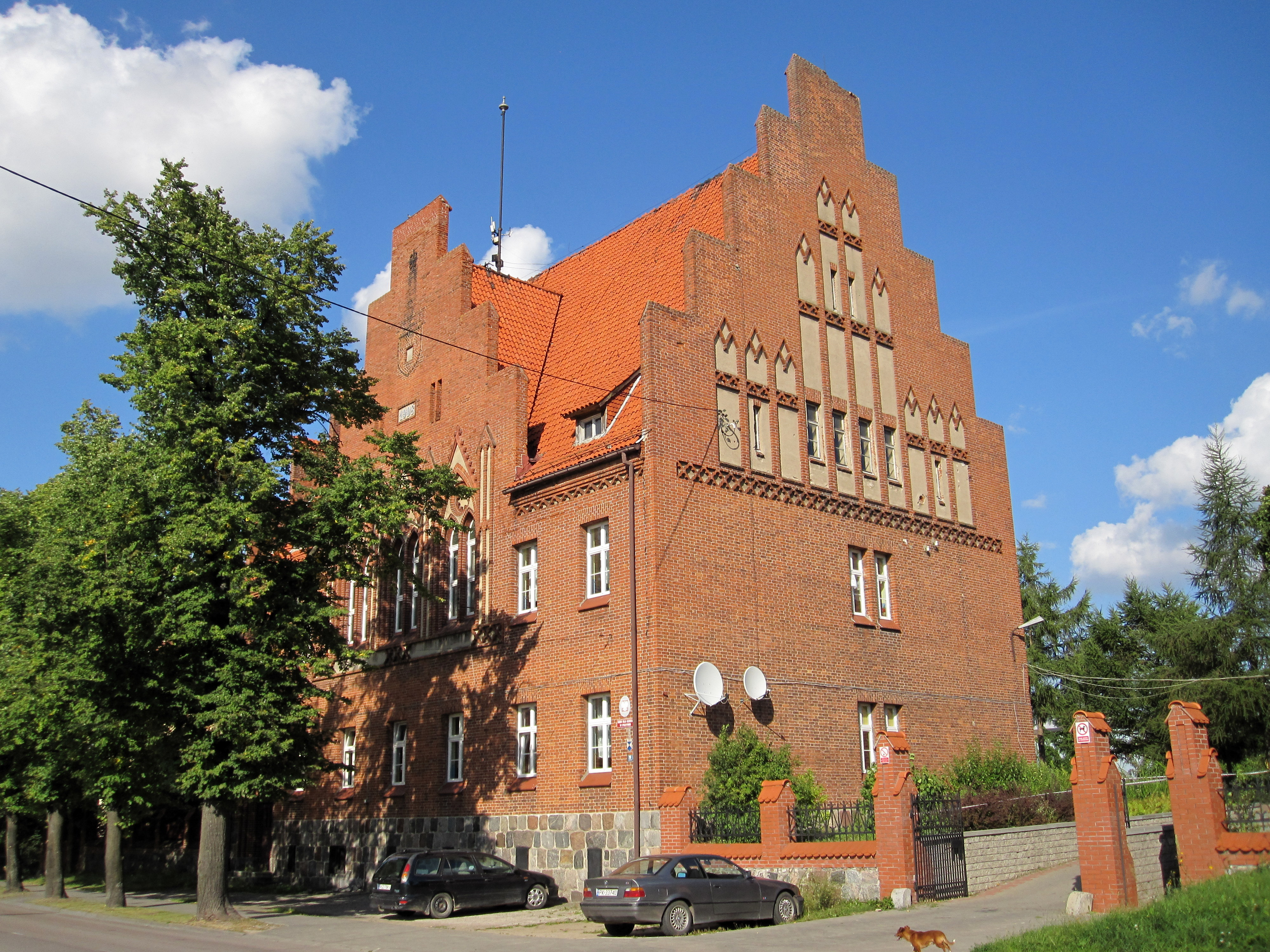 29 Dworcowa Street in Pasym. Old Courthouse (1904-08).